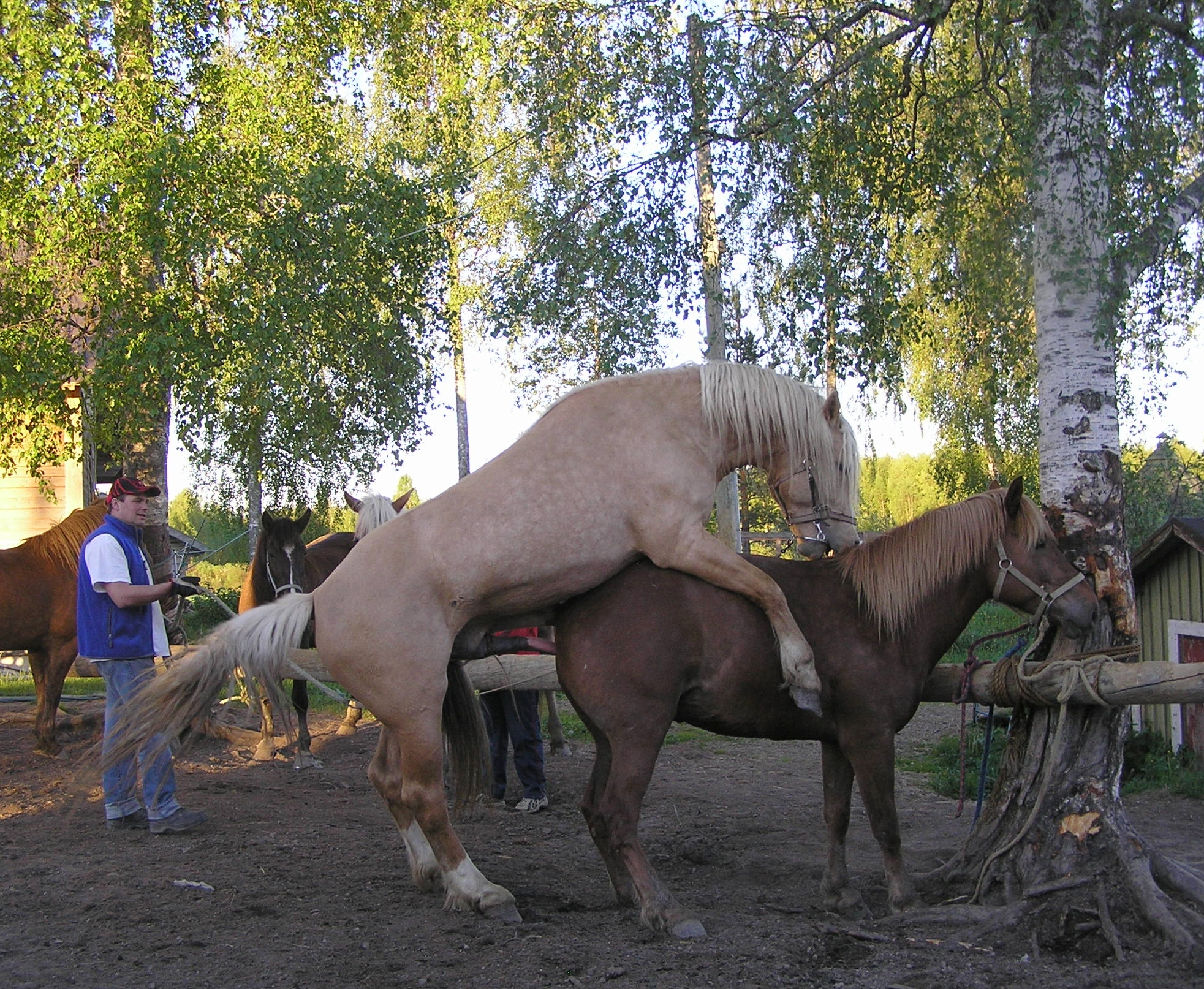 Finnhorse stallion Auringon Loiste serving a mare